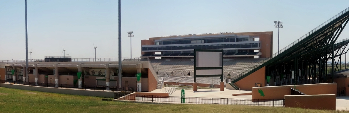 The back (south) side of Apogee Stadium in Denton, Texas.